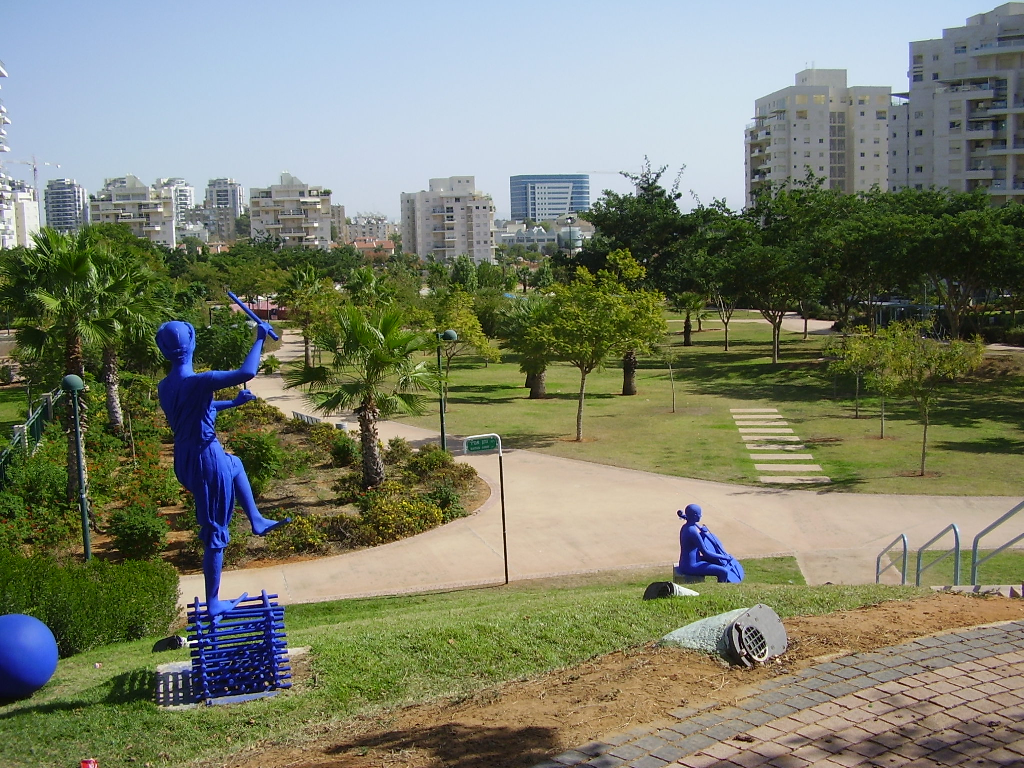 reisfeld park in kiryat ono